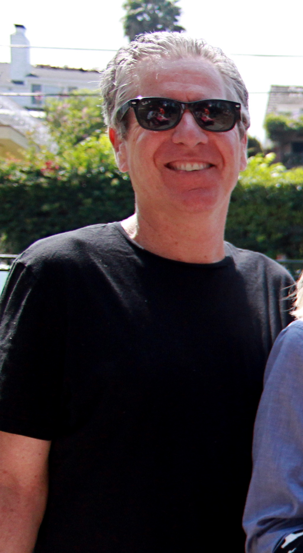 Daniel Attias in 2011